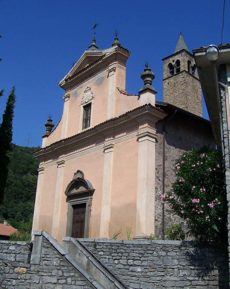 Facade, St Mary, Esine, Val Camonica